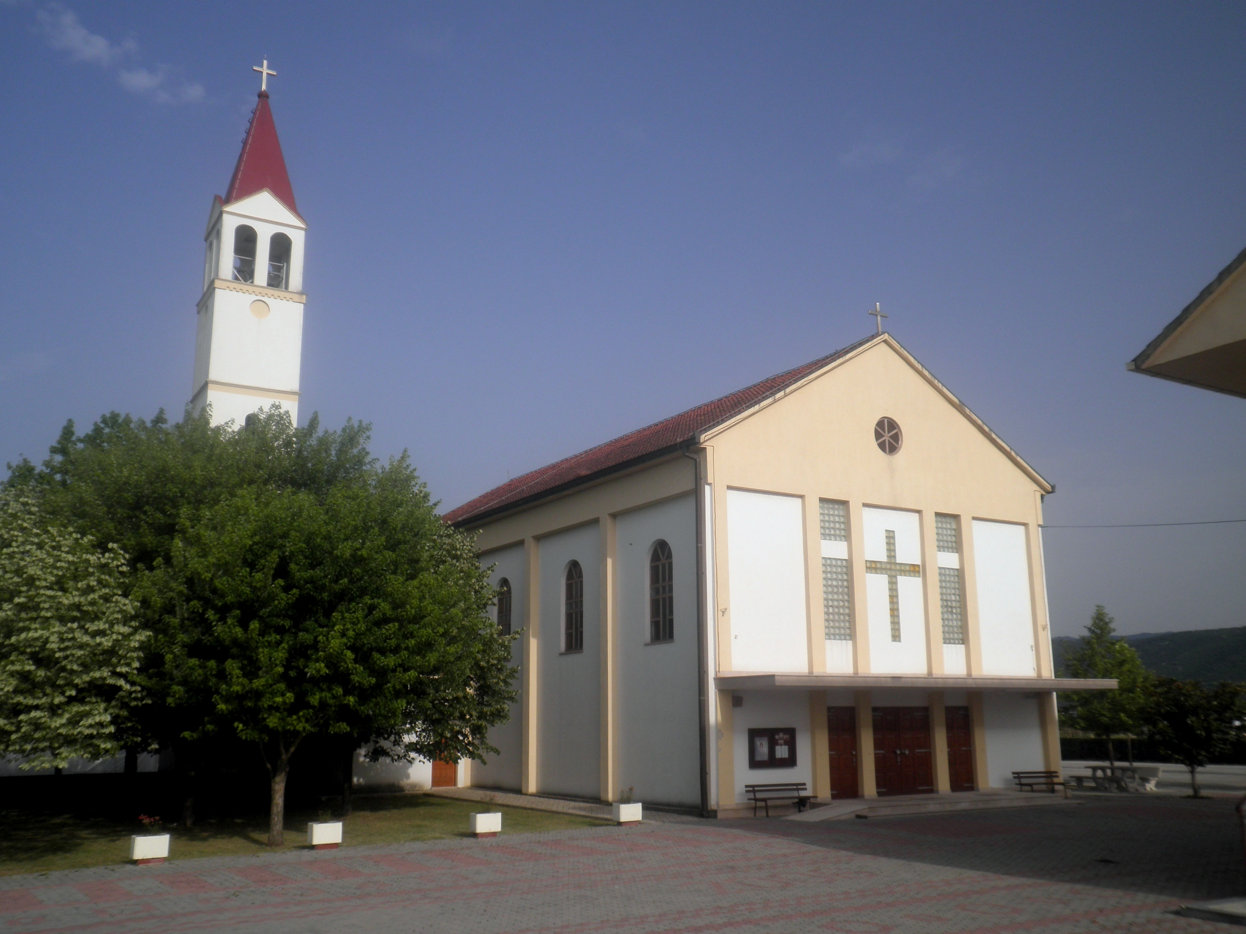 Church of Holy Trinity - Gabela Polje, BiH